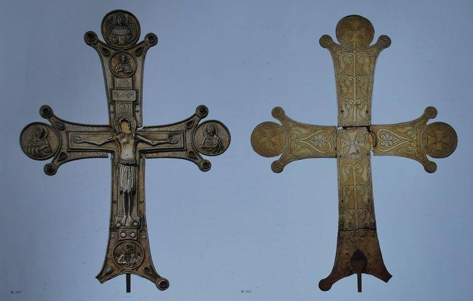 Byzantian assyrian cross